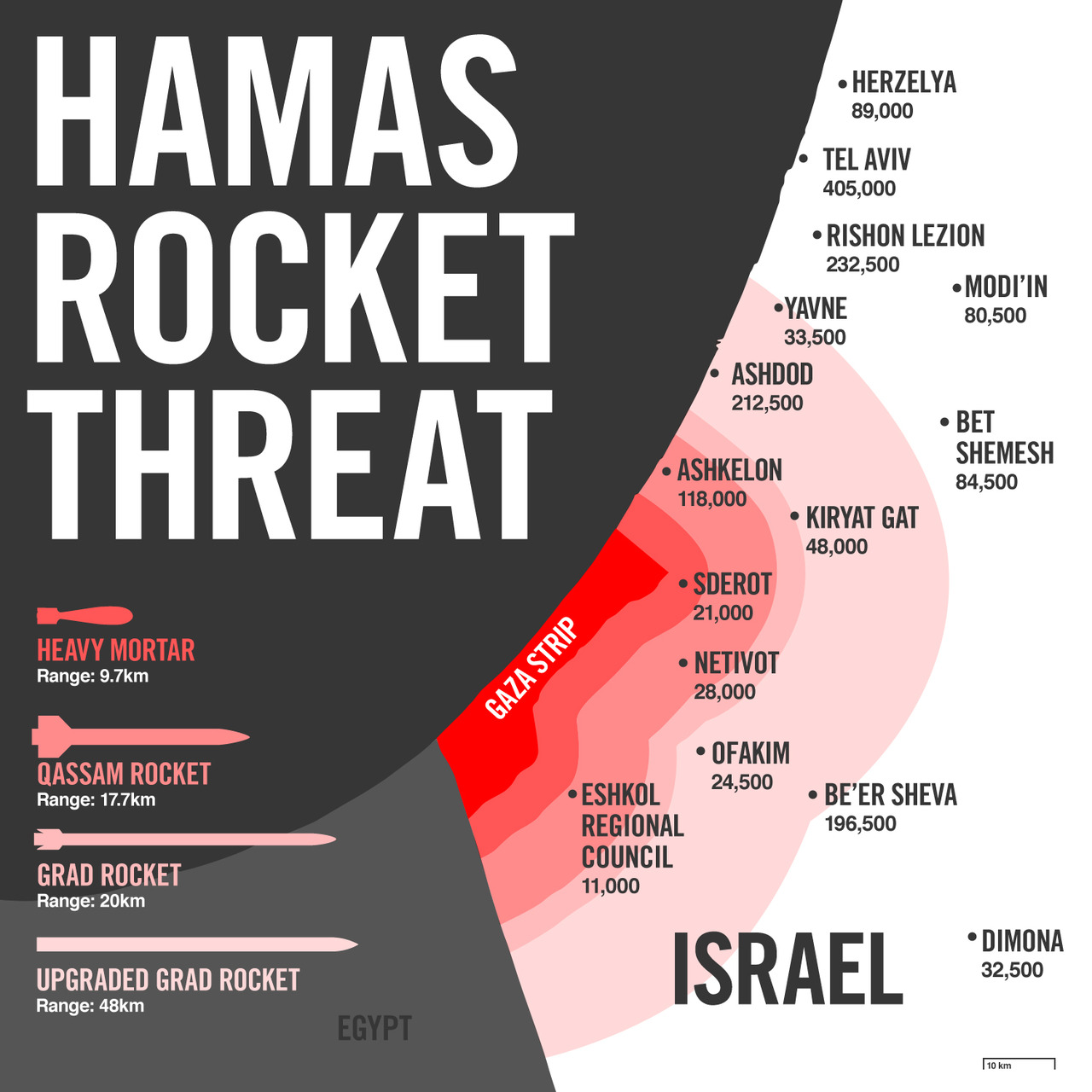 In response to the incessant rocket attacks from the Gaza Strip – more than 700 have struck Israel since the beginning of the year, and more than 120 since Saturday – the IDF has launched a widespread campaign against terror targets in Gaza. The operation, called Pillar of Defense, has two main goals: to protect Israeli civilians and to cripple the terrorist infrastructure in Gaza. For more information